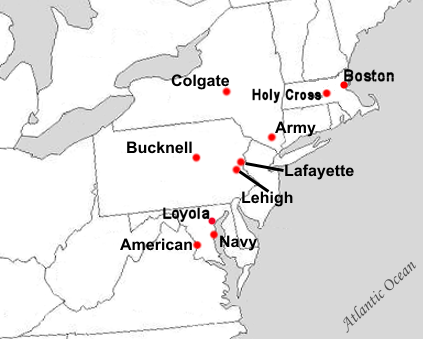 Locations of Patriot League Conference full member institutions. Personal creation in Photoshop; All rights released to the public to do whatever they want with it.